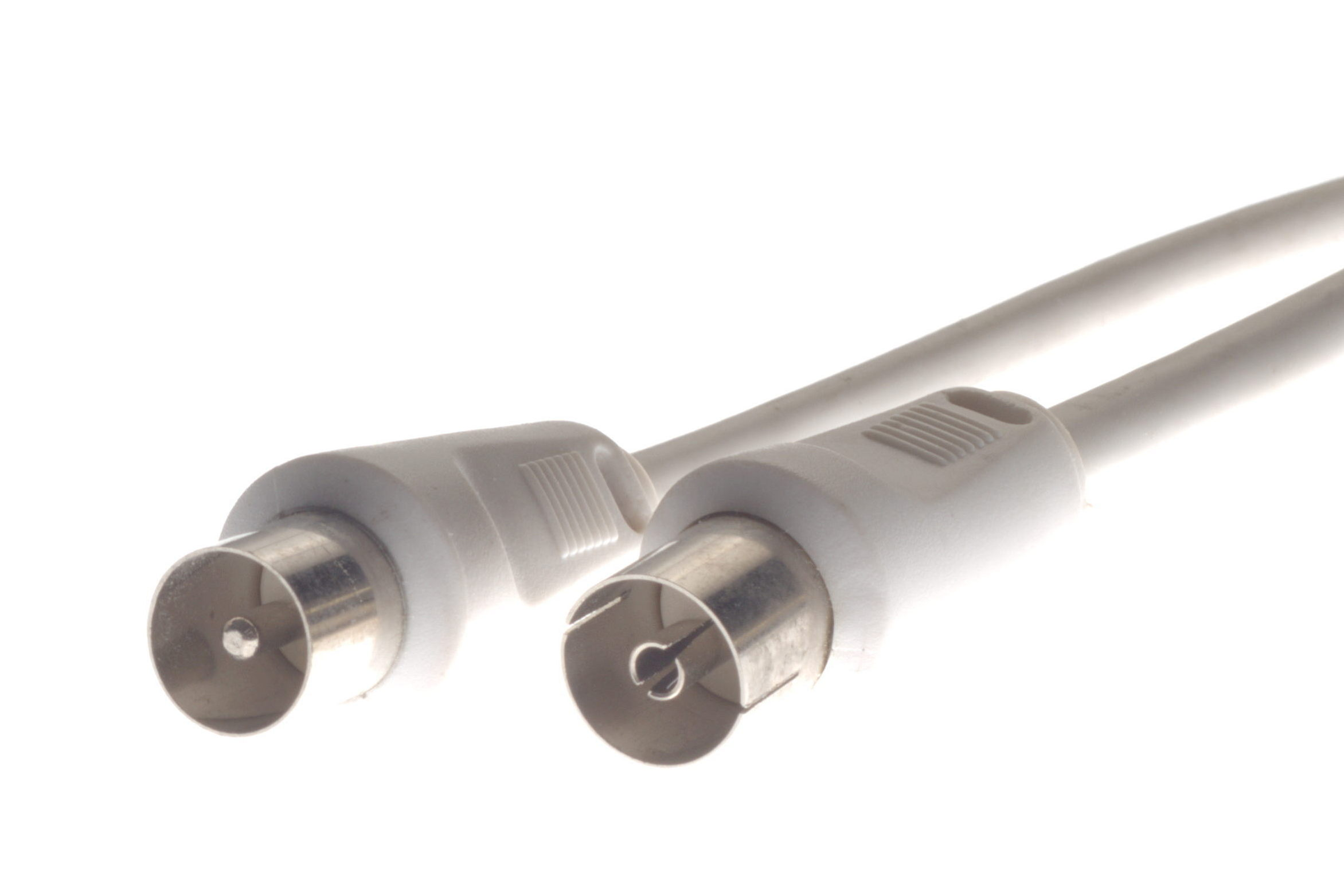 IEC 169-2 (Belling-Lee) connector